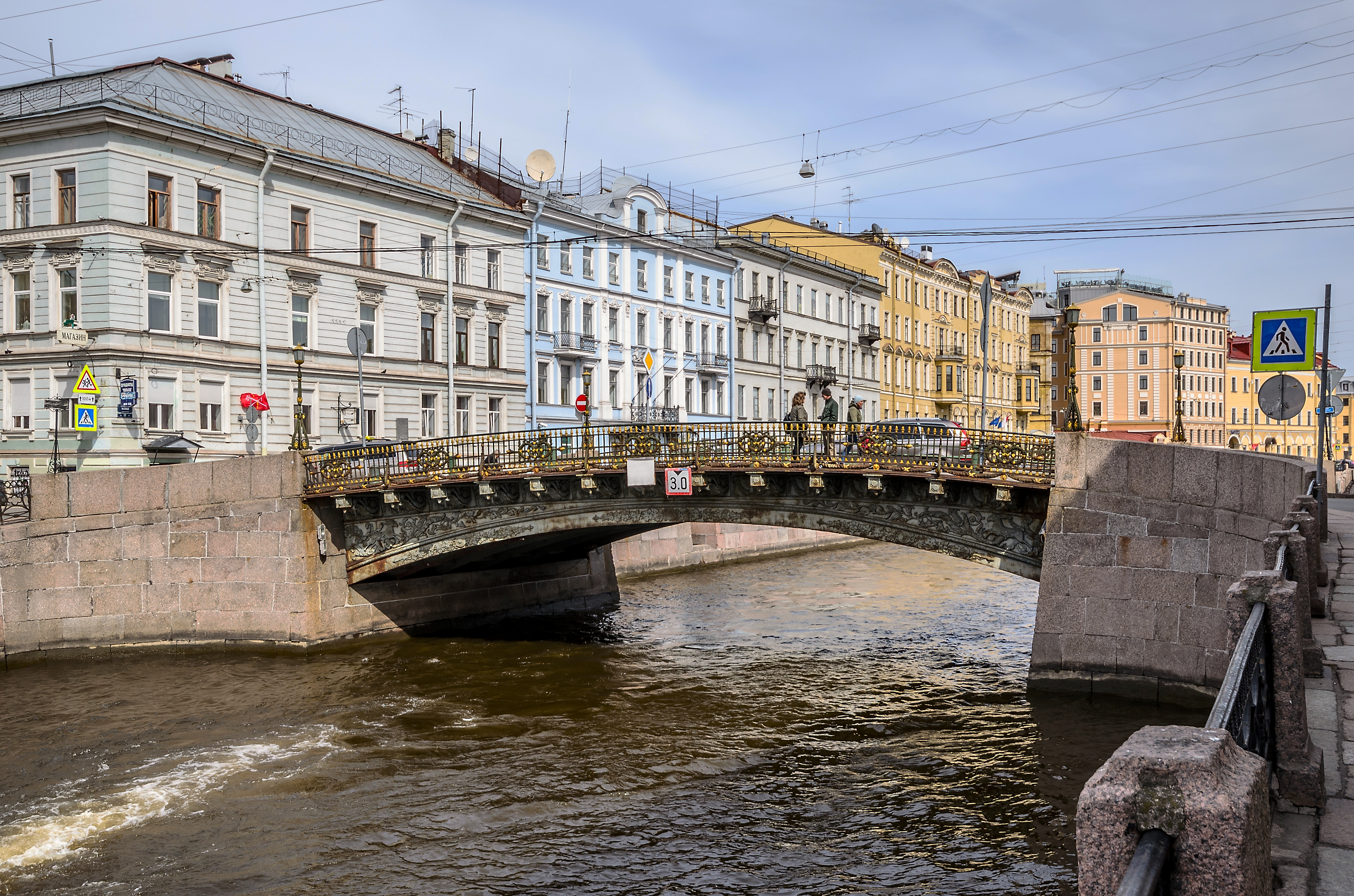 Bolshoy Konushenny Bridge in Saint Petersburg